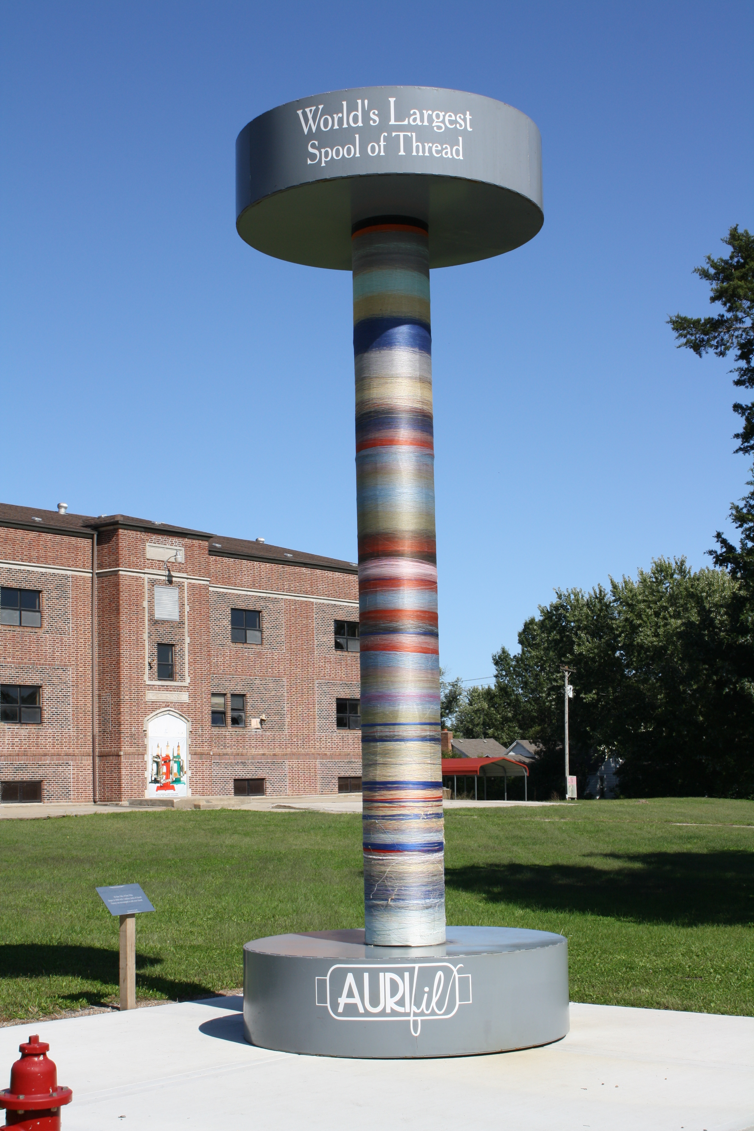 Hamilton, Missouri, USA, where the quilt museum is located is the home of Missouri Star Quilt Company